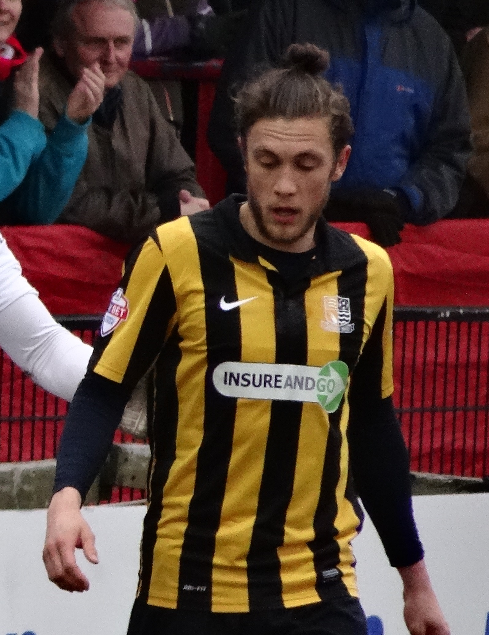 Ben Coker.